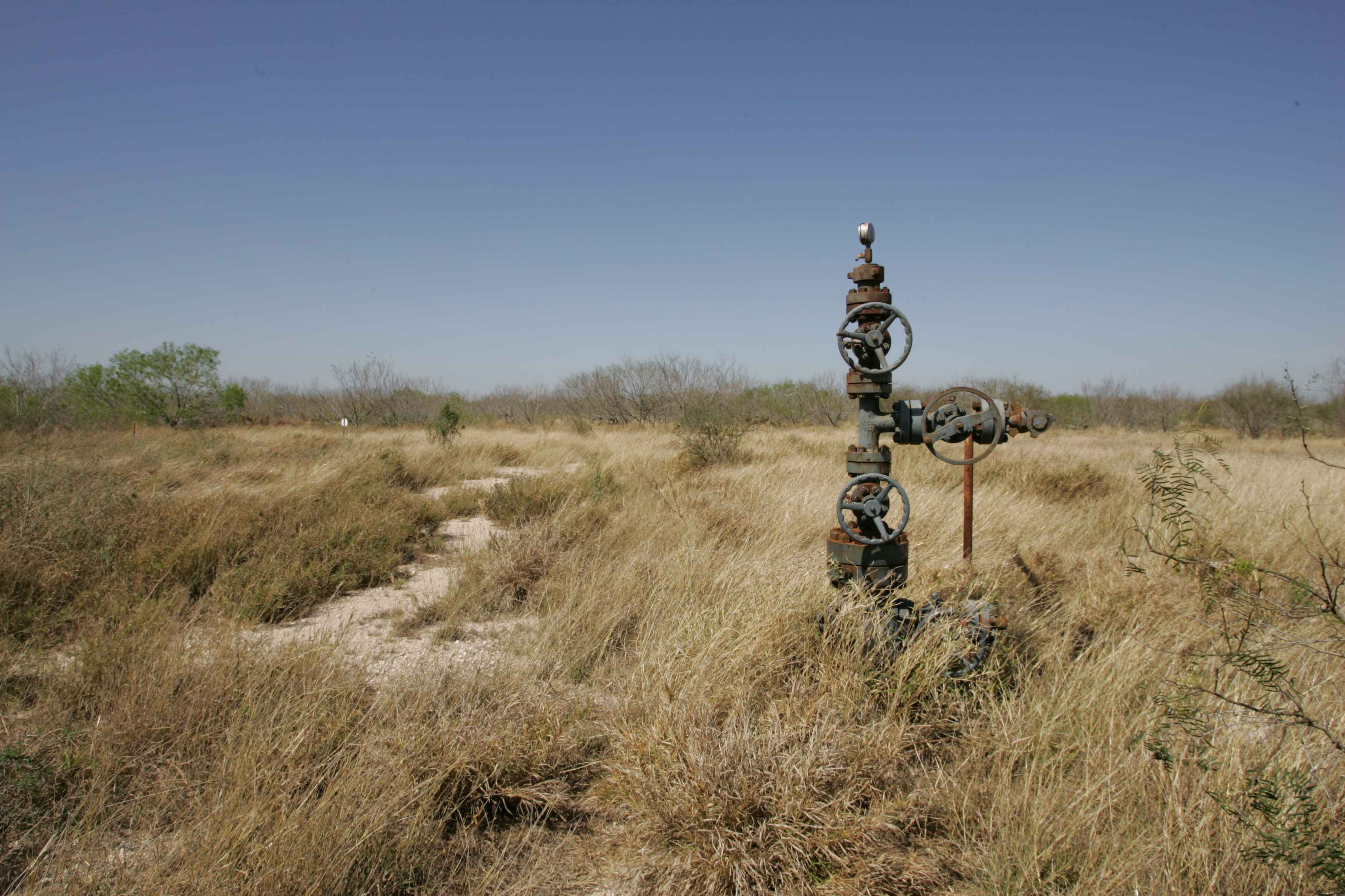 Image title: Abandoned gas well in high grass Image from Public domain images website